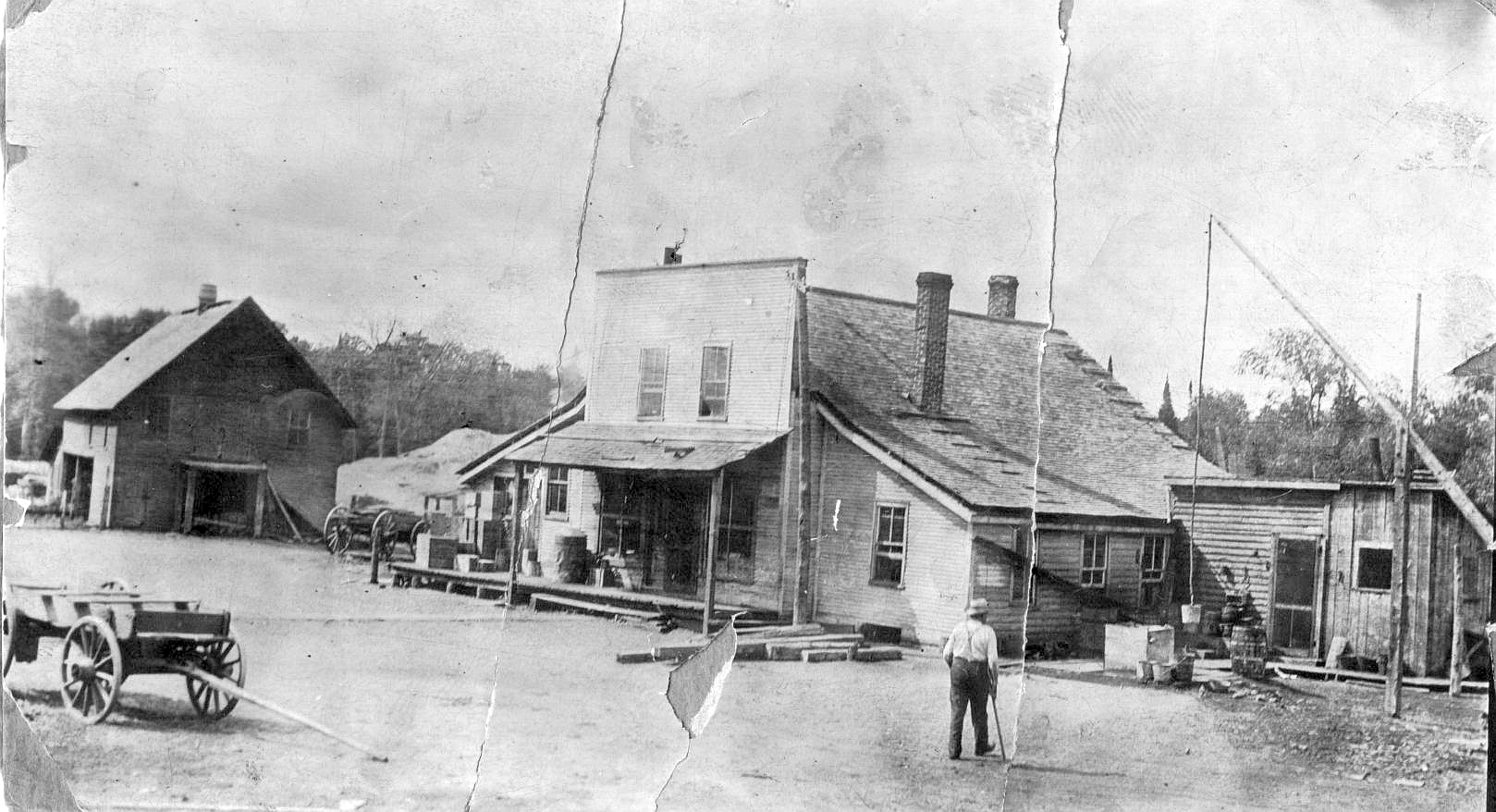 Flickr description HC07701 A photograph showing Centreton, Ontario